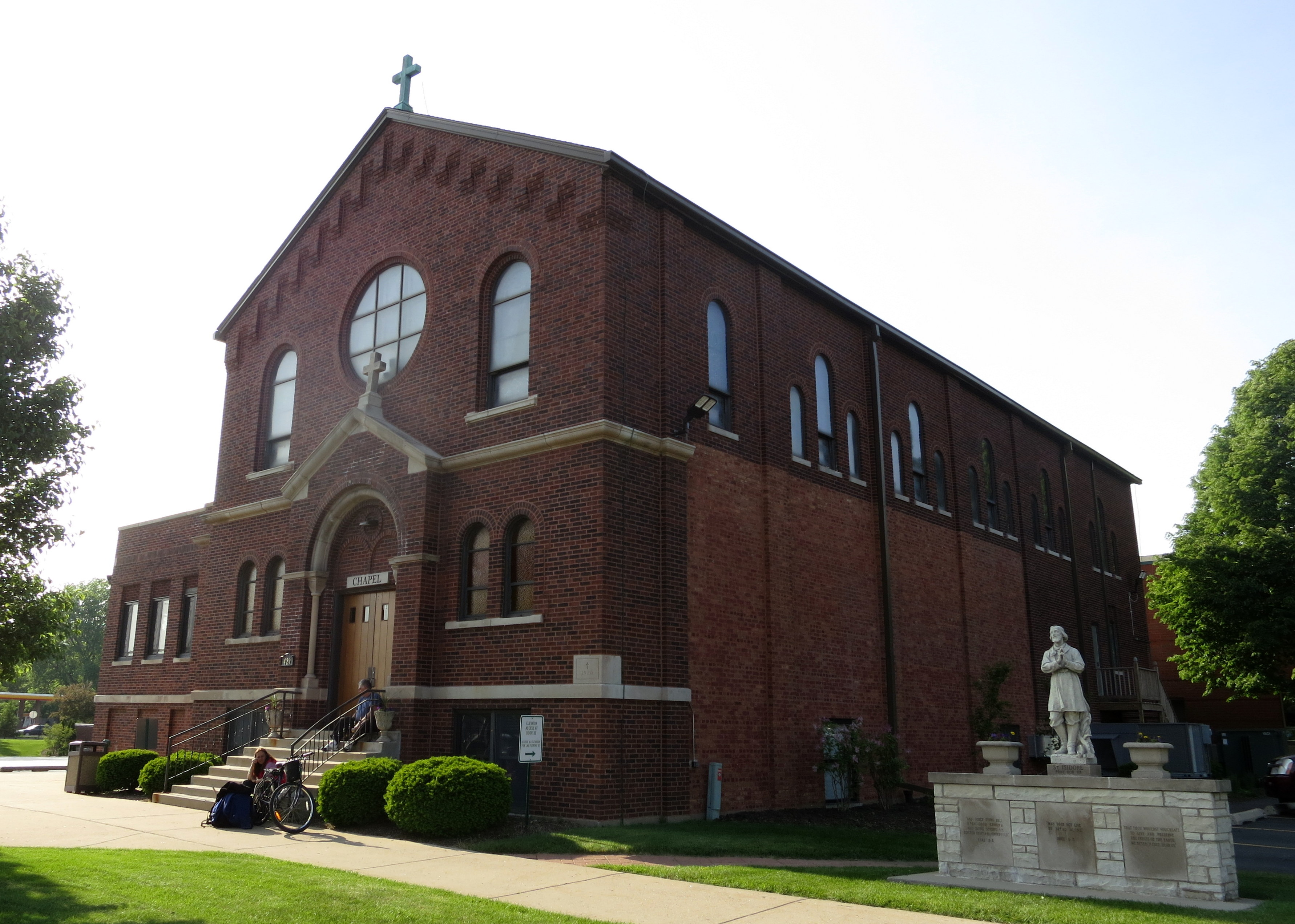 Saint Isidore Catholic Church (Bloomingdale, Illinois) - exterior 2